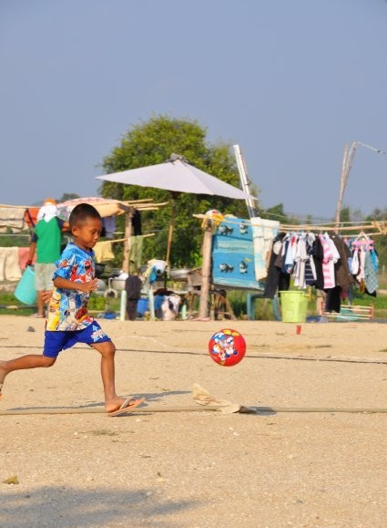 Child Protection and Developement Center in Pattaya, Thailand